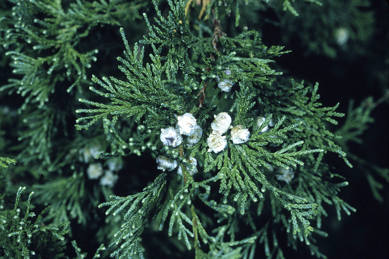 Chamaecyparis thyoides (L.) B.S.P. Atlantic White Cypress.